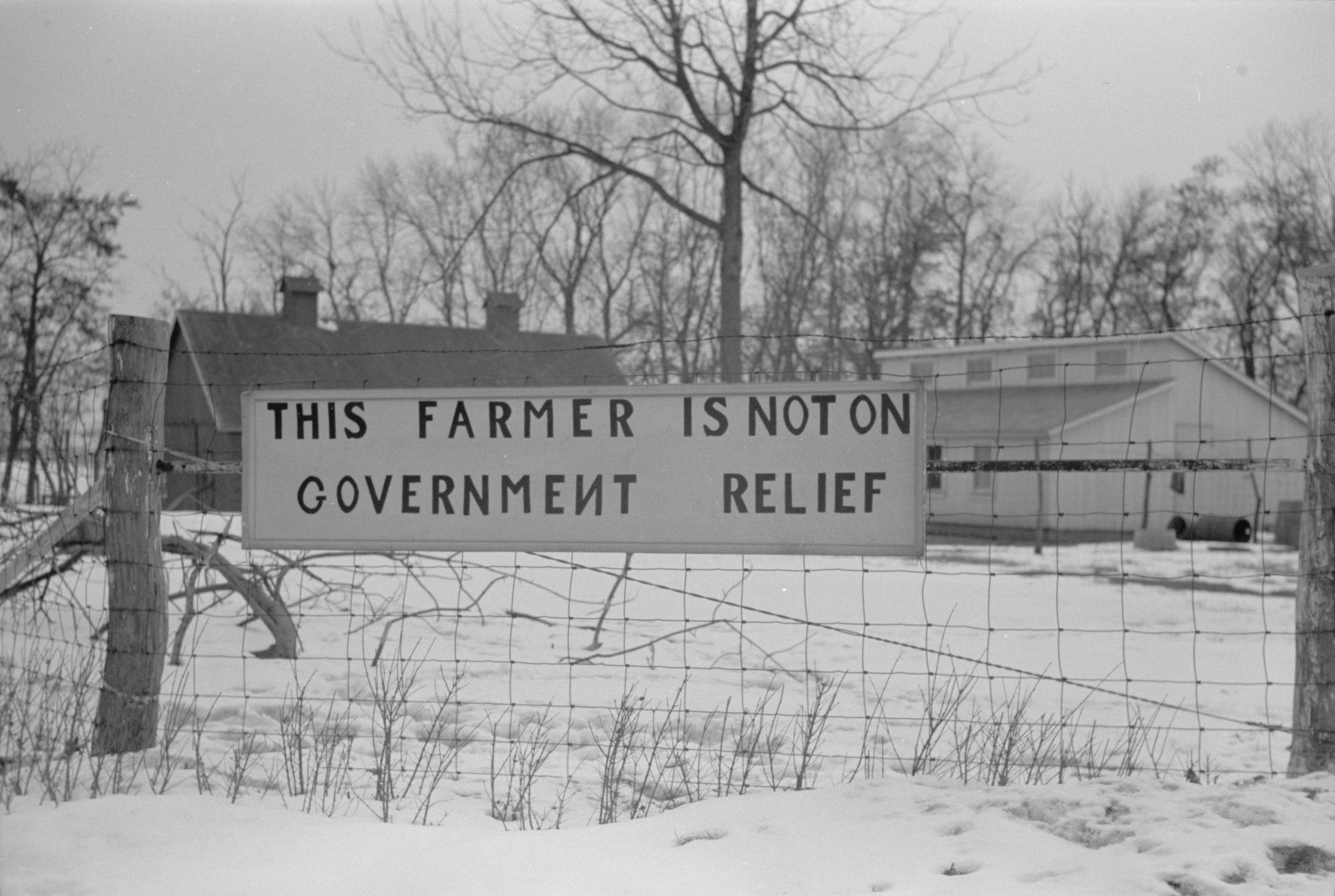 Farmer protesting the New Deal relief program. Note in the Library of Congress database: Untitled photo, possibly related to: Farm near Rock Island, Illinois